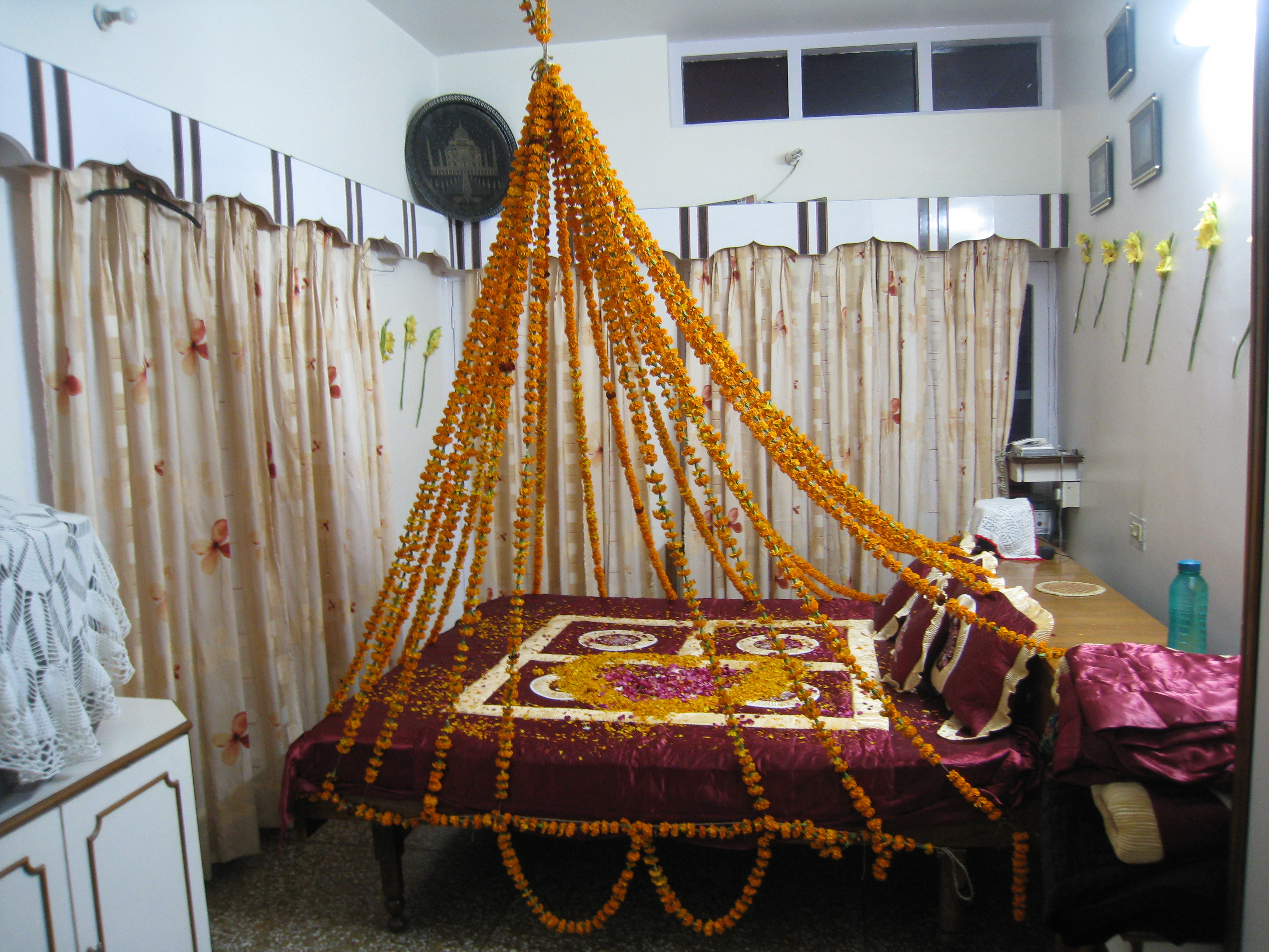 Flower bed in Indian wedding ceremony, Moga, Punjab.